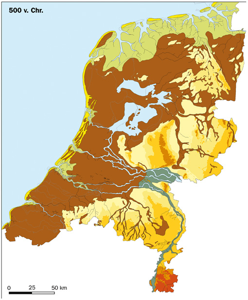 Palaeography of the Netherlands 500 BC